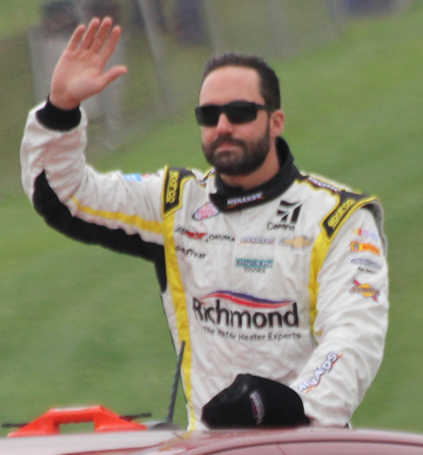 NASCAR driver Paul Menard waves to the crowd during drivers introduction at the Xfinity Series race at Road America. He ended up winning the race.